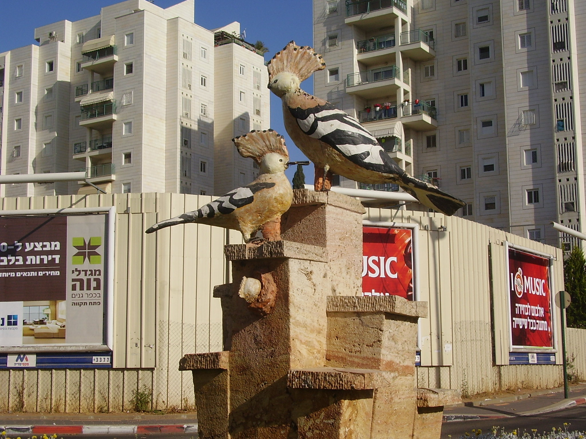 Hoopoe Square in Petakh-Tikva, Israel